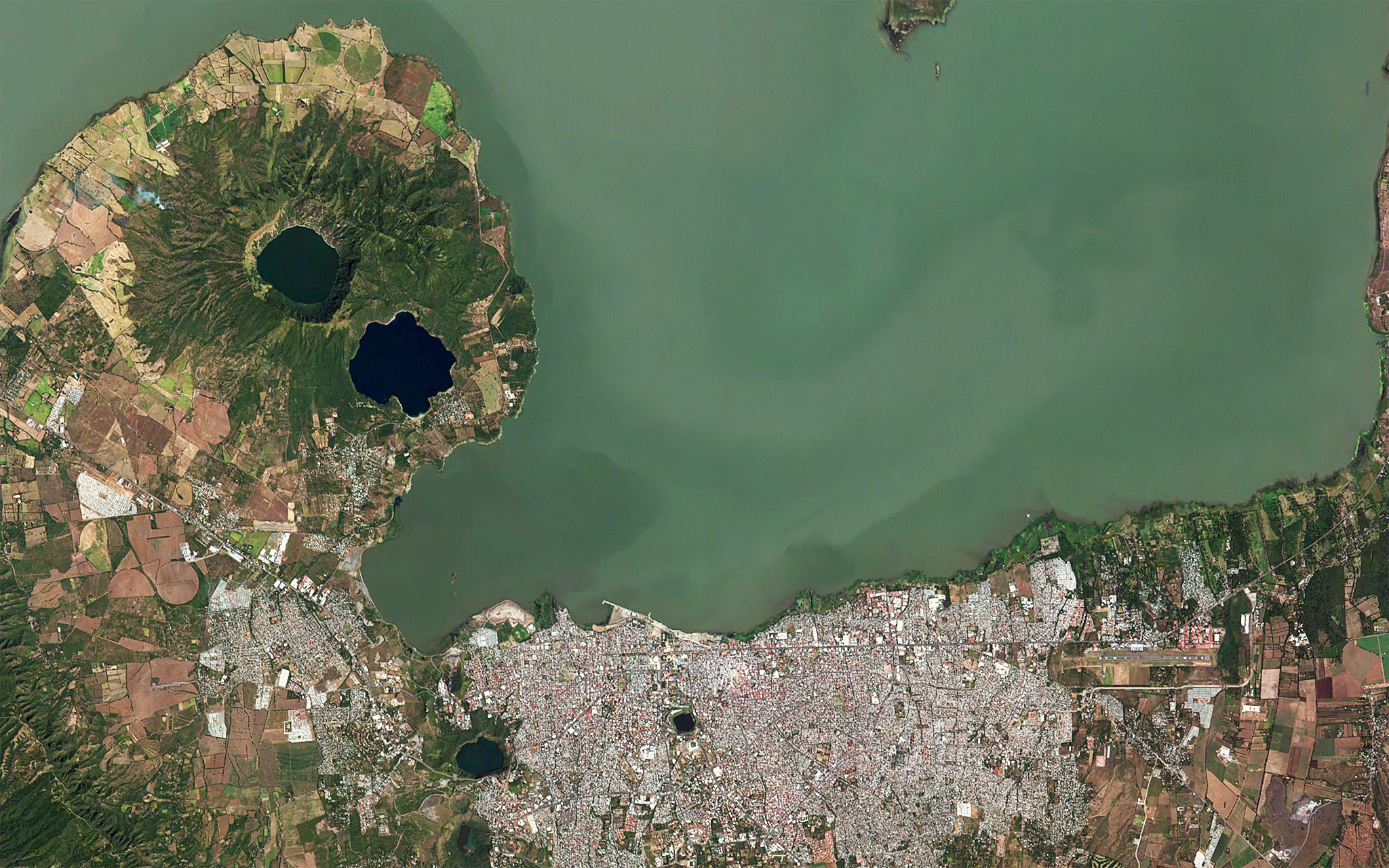 Managua, Nicaragua, as viewed by Hodoyoshi-1 satellite.